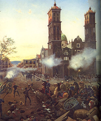 Image from the battle in the central place of Puebla in 1863